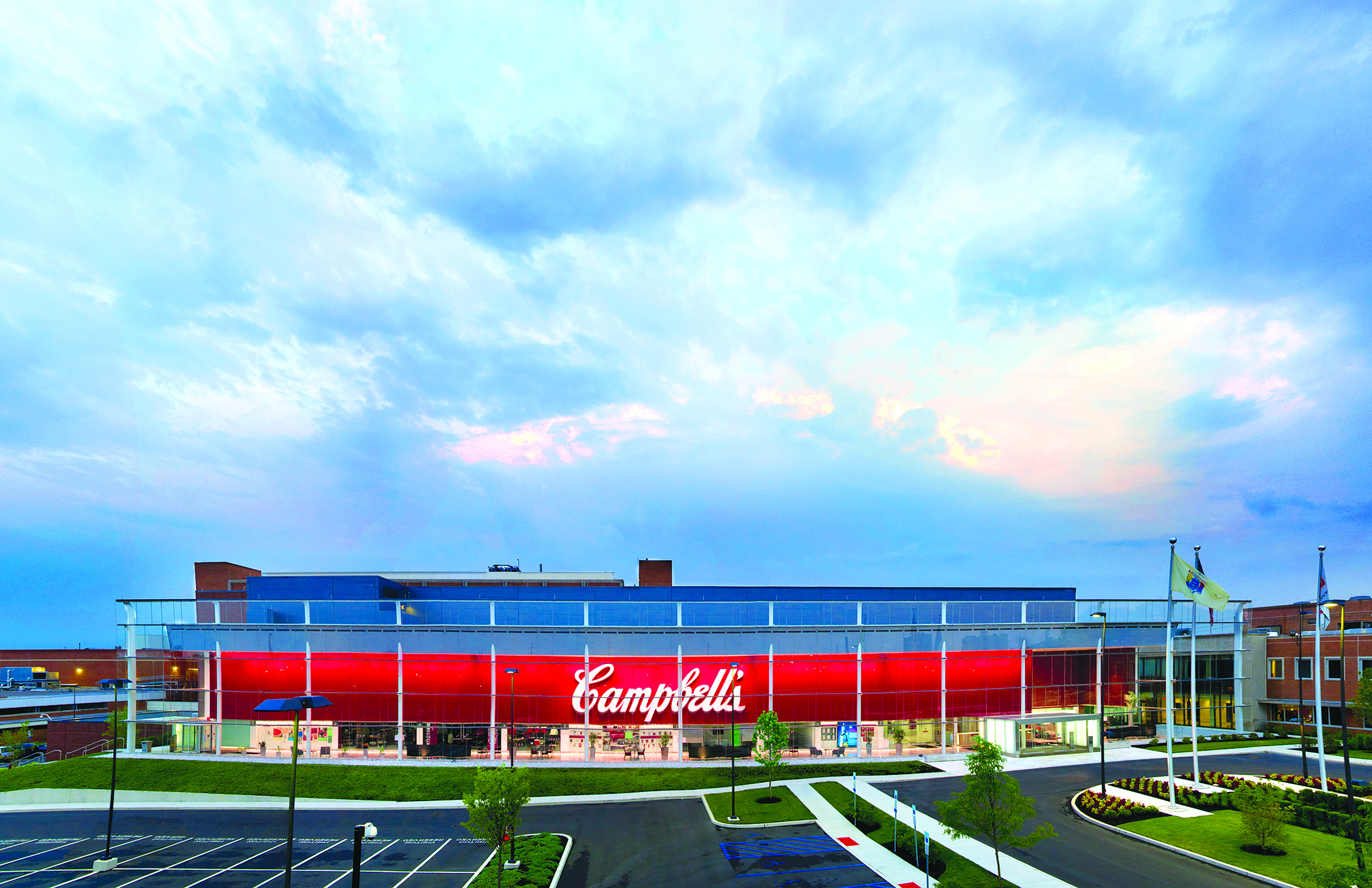 Exterior view of the new World HQ building in Camden, N.J.